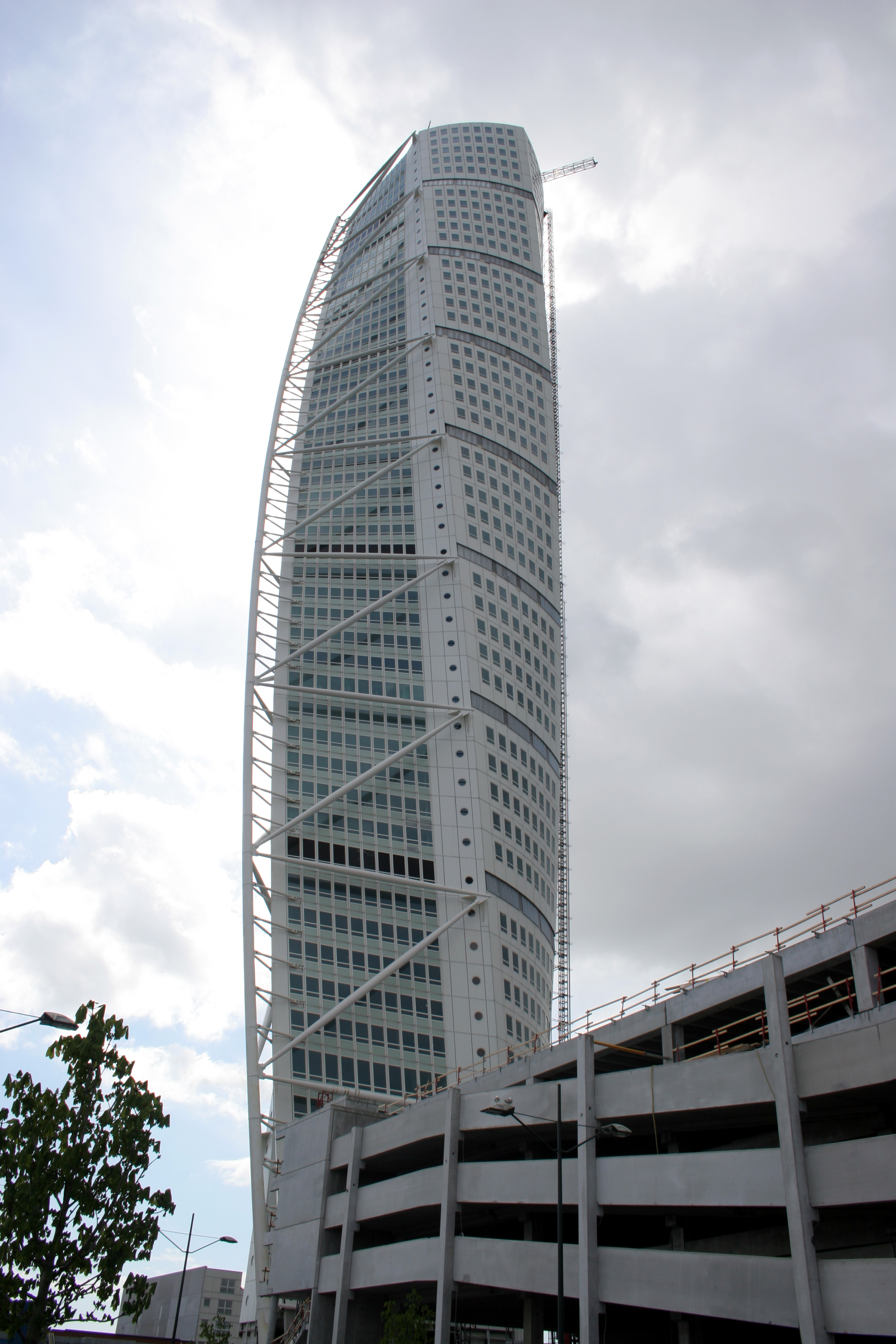 Turning torso, Malmö, Sweden. The building is still not finished.